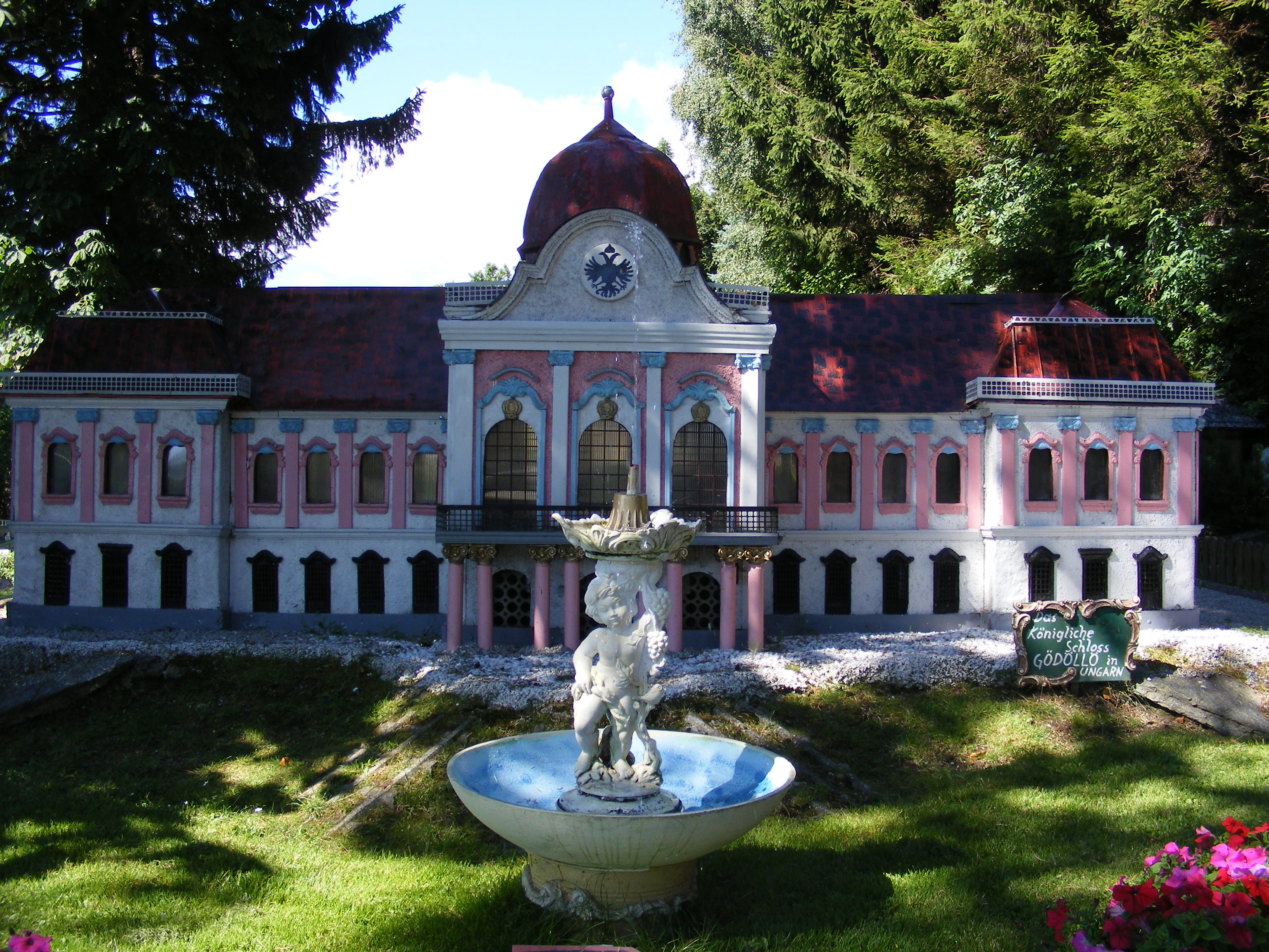 Model of Gödöllö Castle in a model park in Mönichkirchen (Austrian federal state of Lower Austria)